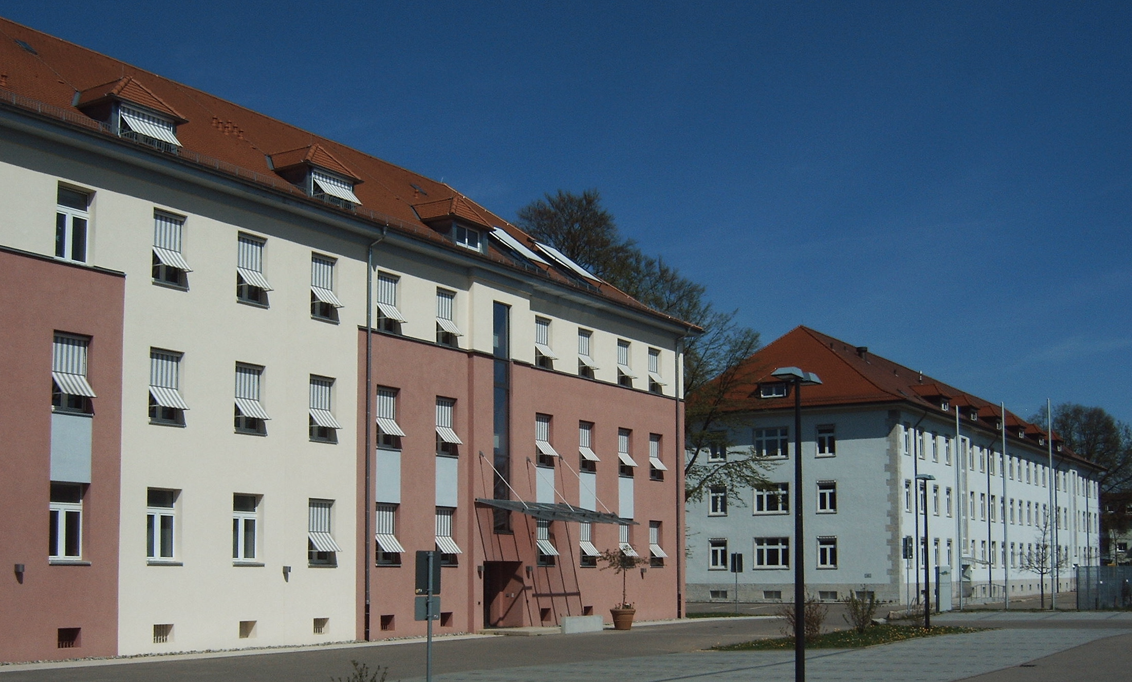 Hardt Kaserne, former home to the U.S. 1st Battalion, 41st Field Artillery, Schwäbisch Gmünd, Germany, now used as governmental buildings (2008)